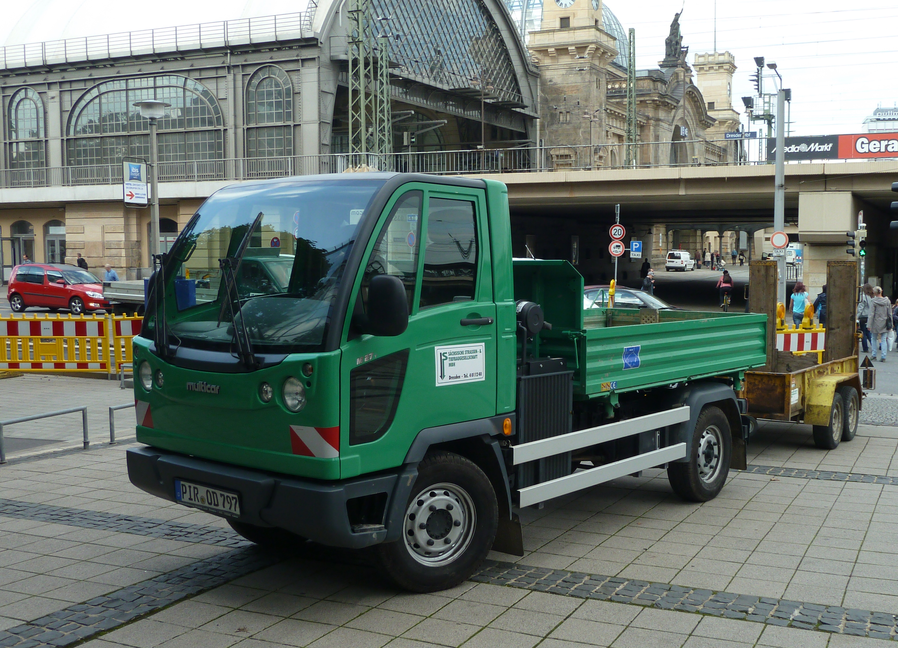 Multicar M27 with trailer near the main station in Dresden